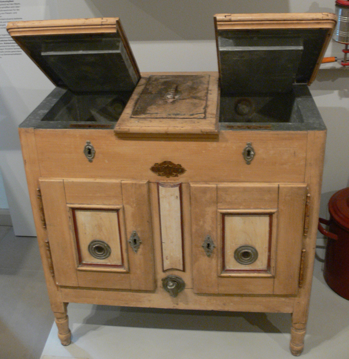 Ice box, late 19th/early 20th century, from Stuttgart, Germany Landesmuseum Württemberg (Außenstelle Museum für Volkskultur in Württemberg, Waldenbuch)